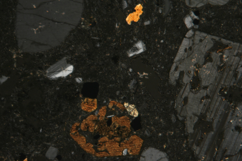 Siim Sepp, 2006 Volcanic rock andesite. Photomicrograph with crossed polars. The width of the view is approximately 0,15 cm. Porphyritic texture. Main phenocrysts are plagioclase, hornblende and magnetite. Groundmass is composed of volcanic glass, plagioclase, hornblende, magnetite and biotite.